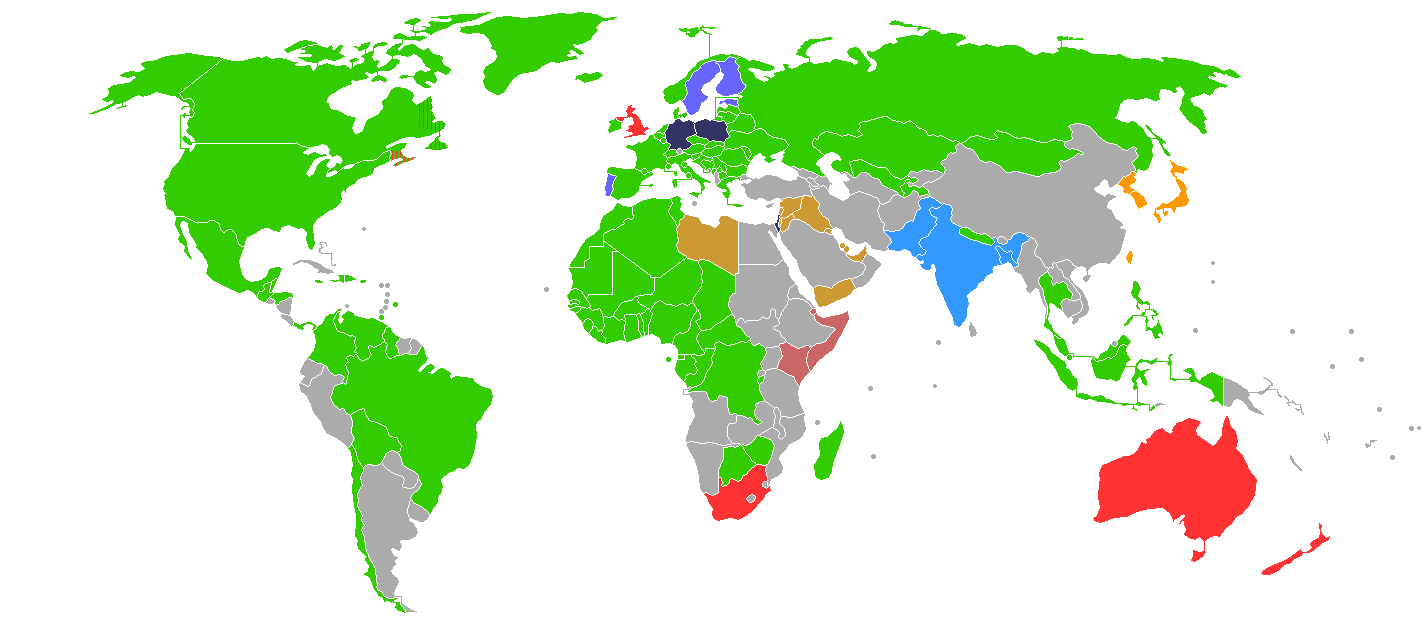 Main Sign Language Families: BANZSL family based on old French/Spanish SL German SL familiy Swedish-Finnish SL family Indo-Pakistani SL family Japanese SL family Kenyan SL family Arabic SL family(?)